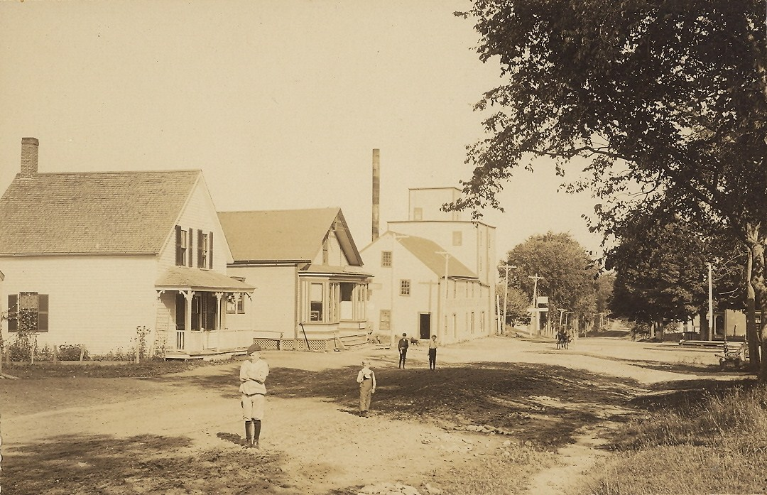 Postcard picture of "Reading Depot, Maine", about 1909